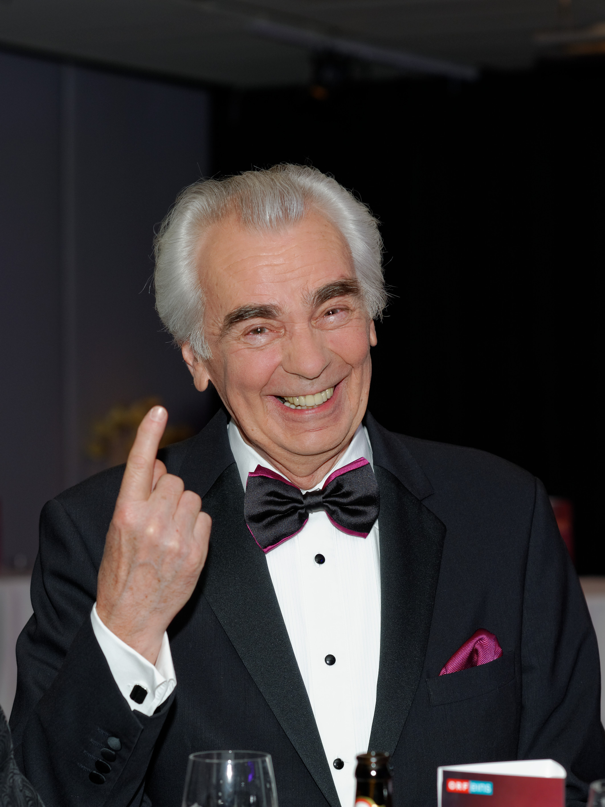 "Dancing Stars" am 5. April 2013 The making of this document was supported by Wikimedia Austria. Hannes Nedbal